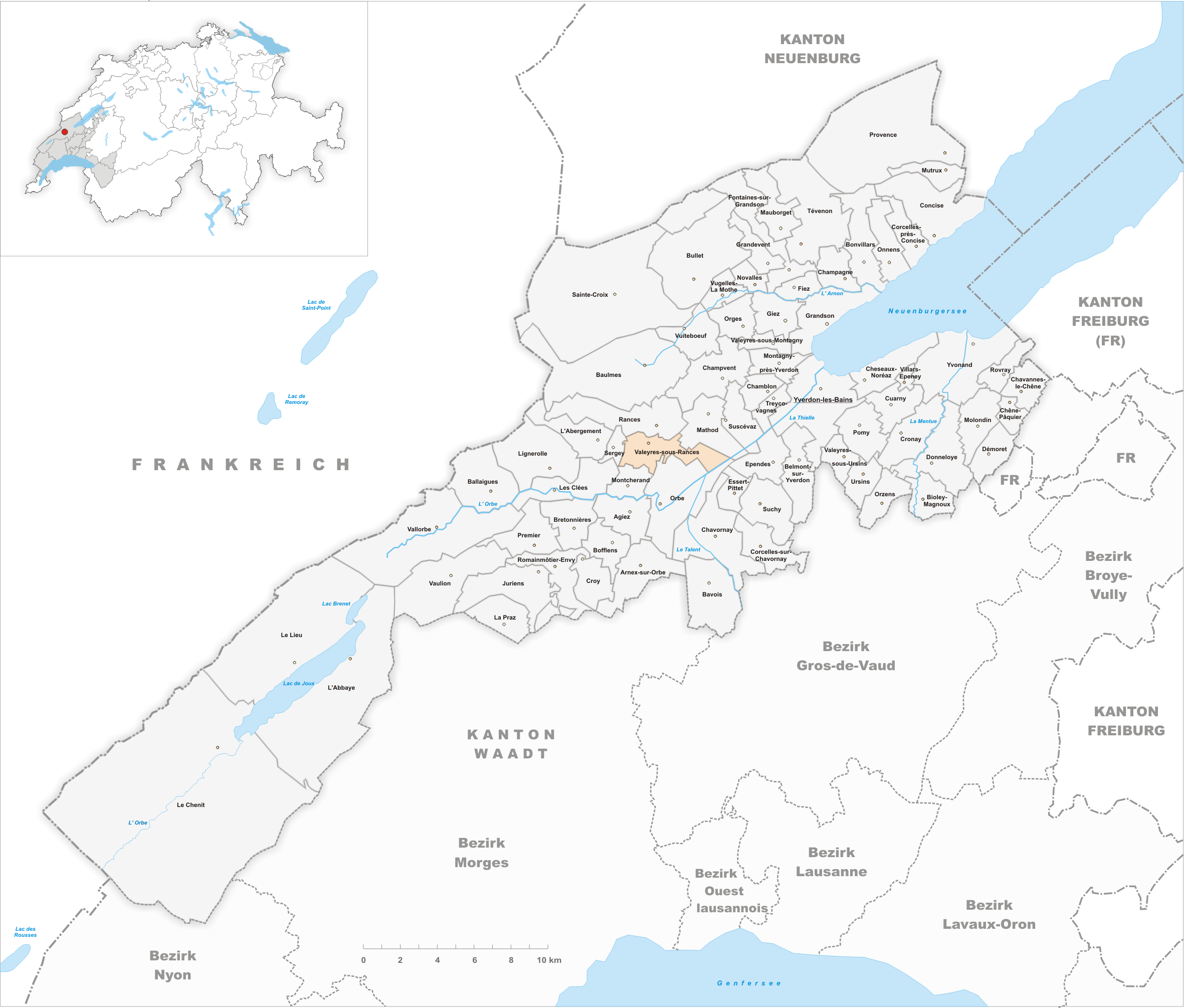 Municipality Valeyres-sous-Rances